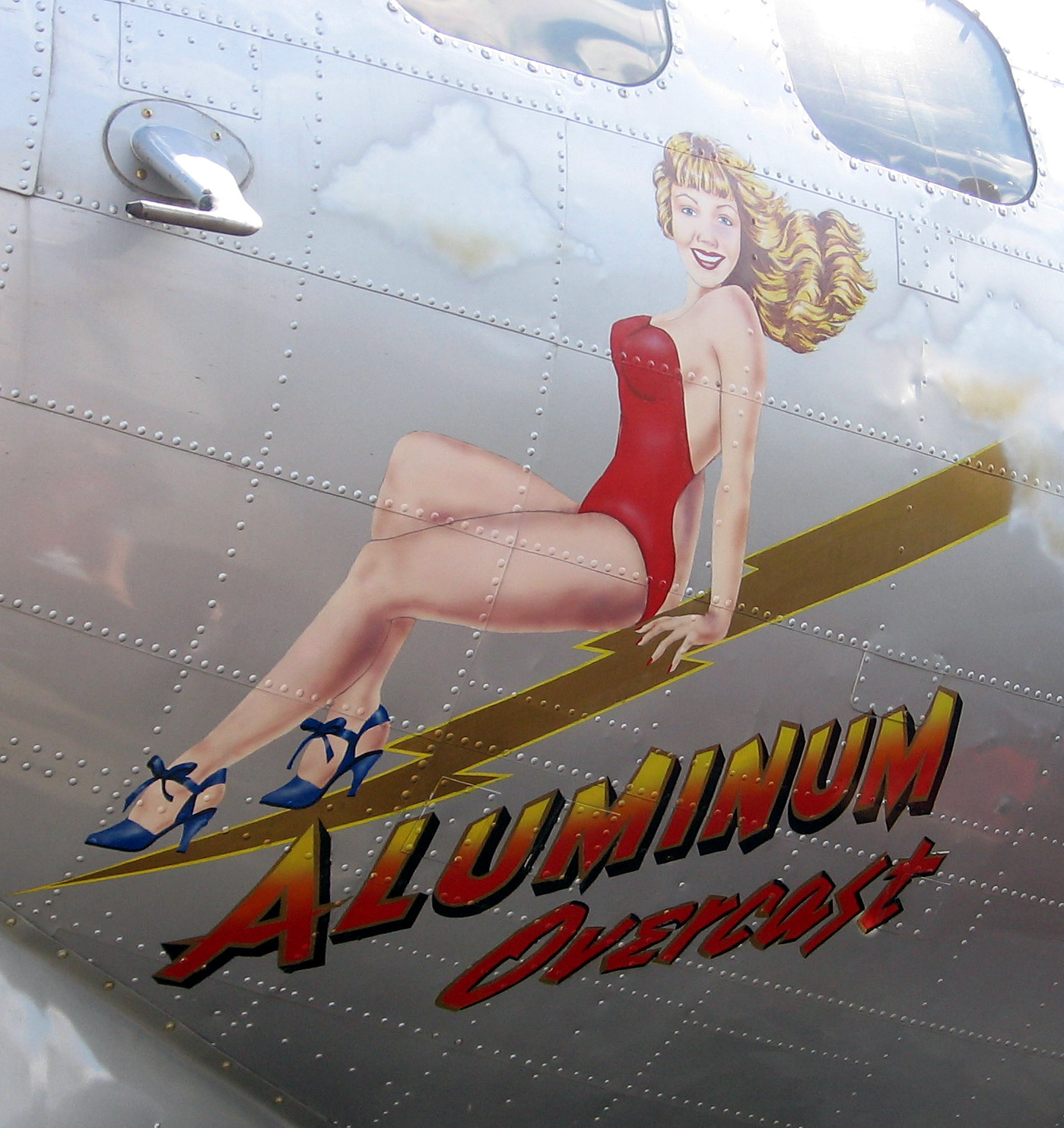 Noseart on the B-17 "Aluminum Overcast".